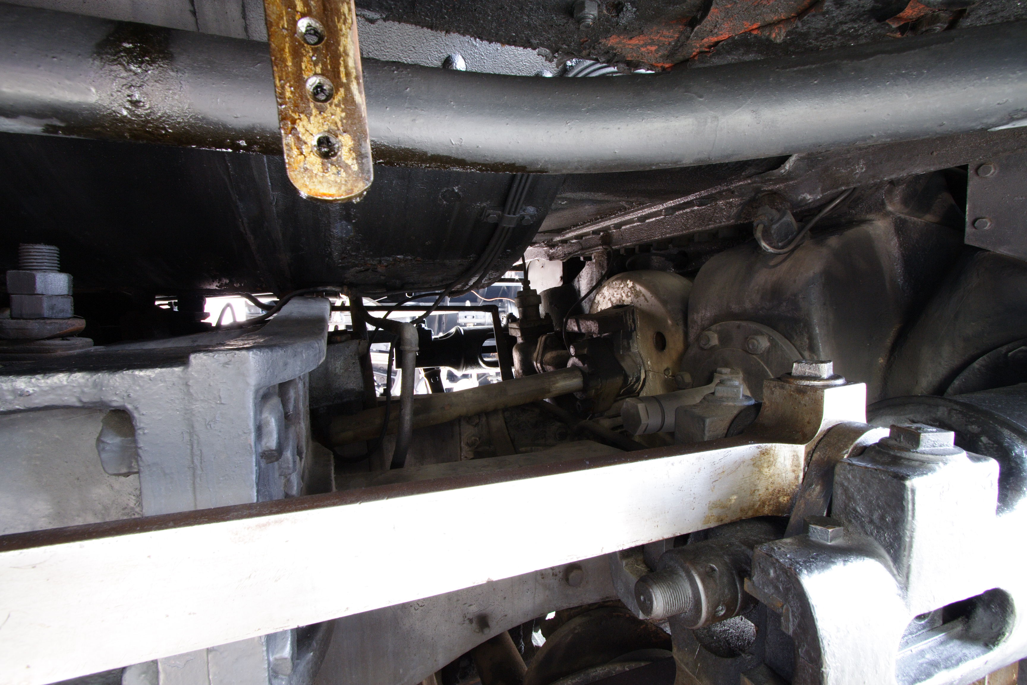 C53の第3シリンダー（写真中央）/the third cylinder of C53